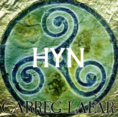 Artwork for the Album Hyn by Carreg Lafar